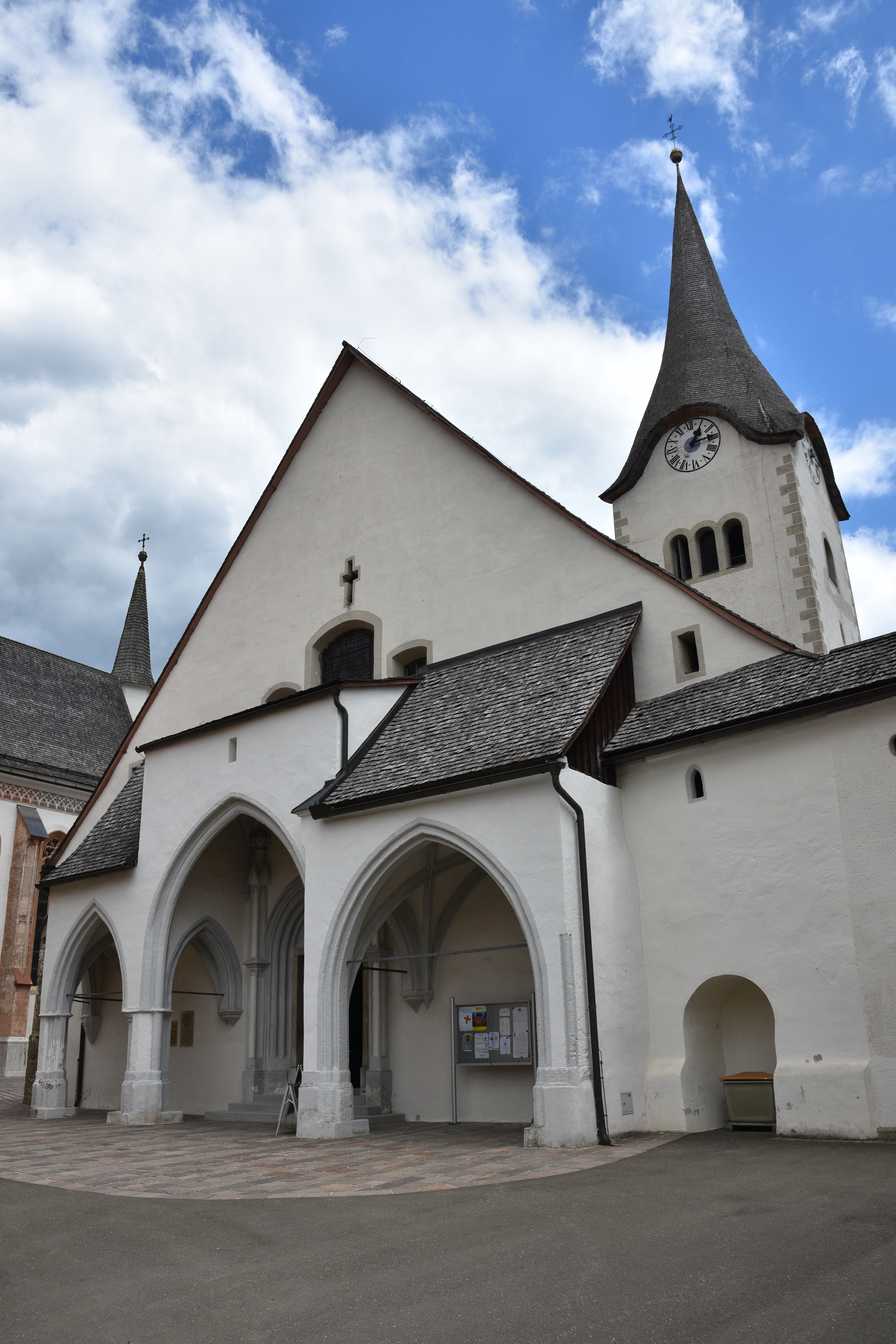 Church St.Martin in Oberwölz